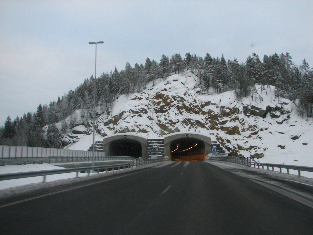 Orosmäki tunnel on highway 1 (E18) in Lohja, Finland.